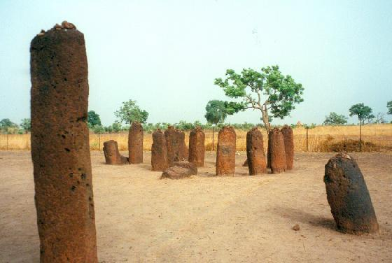 Wassu, the mysterious stone circles